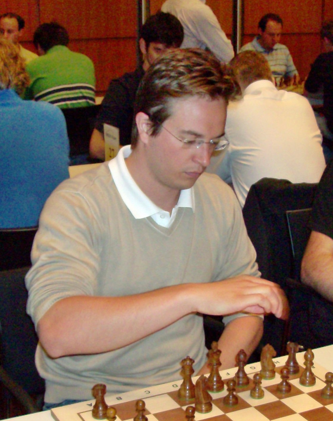 Robert Fontaine, Chess Grandmaster from France